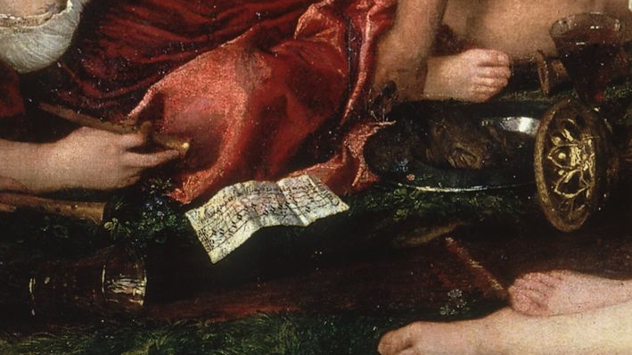 Bacchanal of the Andrians, 1522–1524; oil on canvasmedium QS:P186,Q296955;P186,Q4259259,P518,Q861259; 175 × 193 cm (68.8 × 75.9 in)